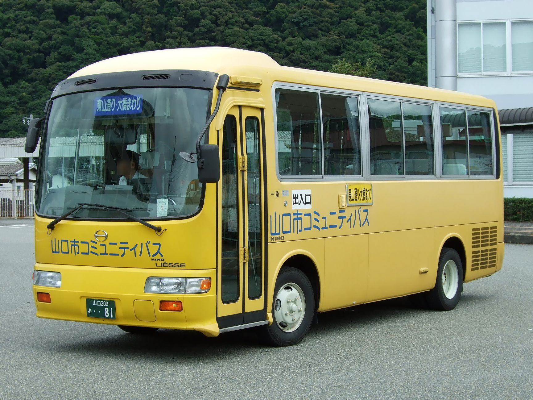 Company:Bocho Kotsu Use:transit bus (Yamaguchi City community bus) Car license:山口200 あ・・81 Chassis manufacturer:Hino Motors Type:Liesse Coachbuilder:Hino Body Location:in Yamaguchi City, Yamaguchi, Japan.